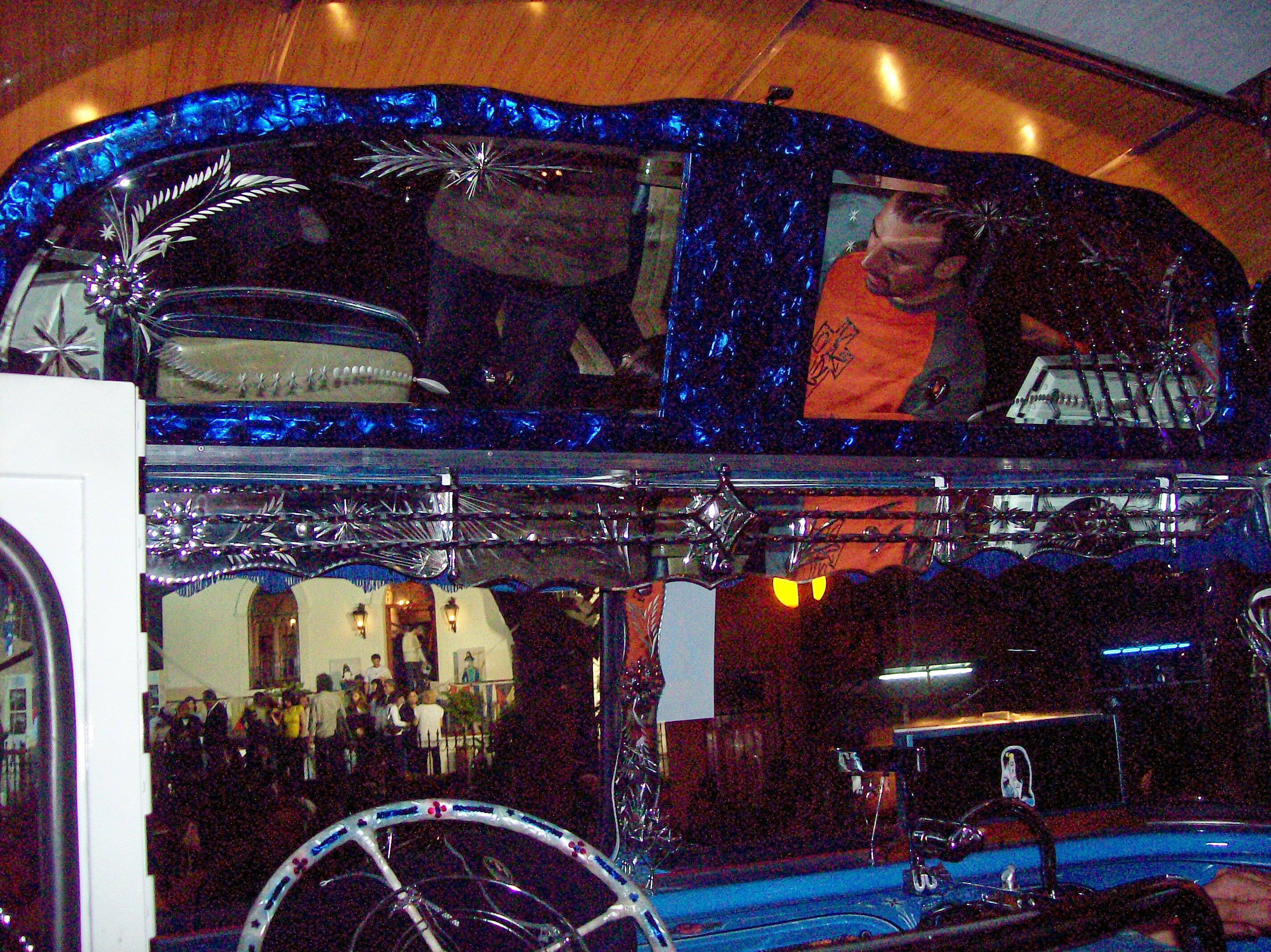 Bus cockpit (reg. XAP 209, #300) with Mercedes-Benz LO-911 chassis in Buenos Aires, Argentina. Colectivo, line 620, Nuevo Ideal S.A. operator.